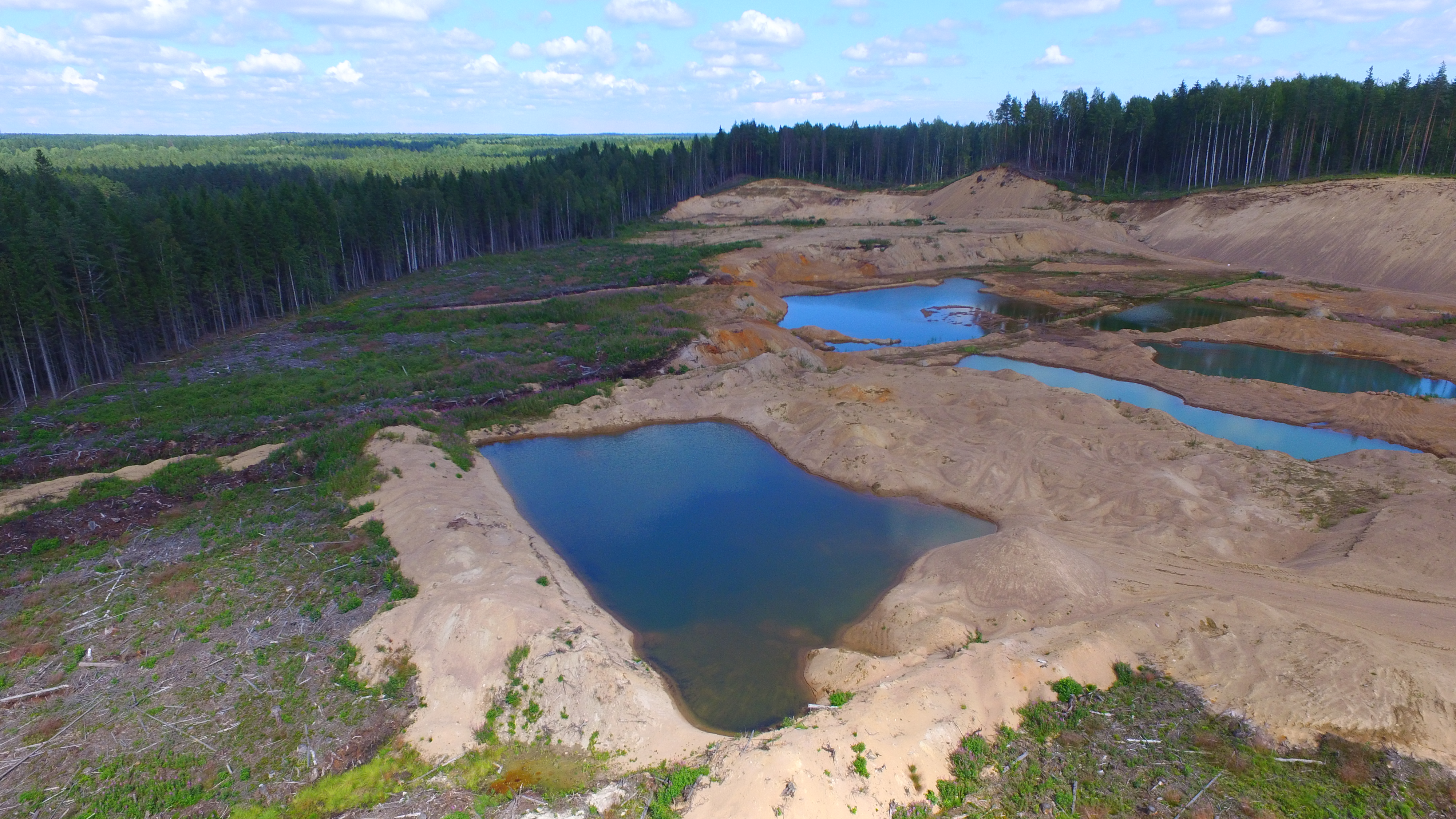 Vyborgsky District, Leningrad Oblast, Russia